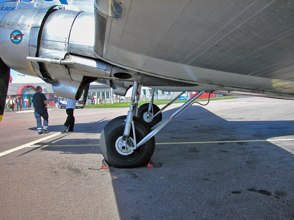 Main landing gears of a Douglas DC-3 (SE-CFP, pet named "Daisy"), photographed at Säve Airport, Gothenburg, Sweden in June, 2002. This photo is taken by me, Kapten Kaos, and I hereby release it in the Public Domain. Enjoy!